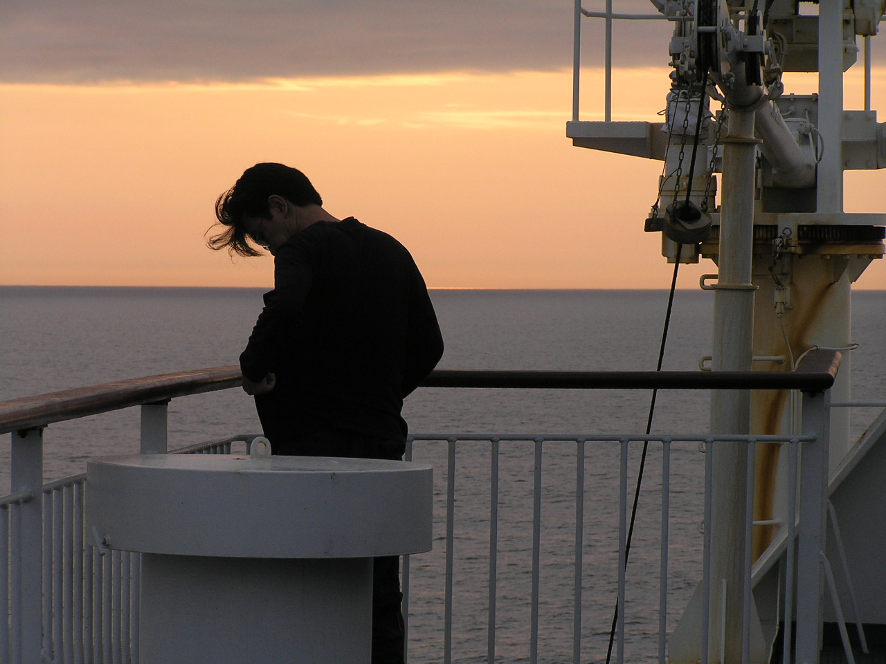 Solitude,孤独,Isolement Isolement,Shinnihonkai Ferry